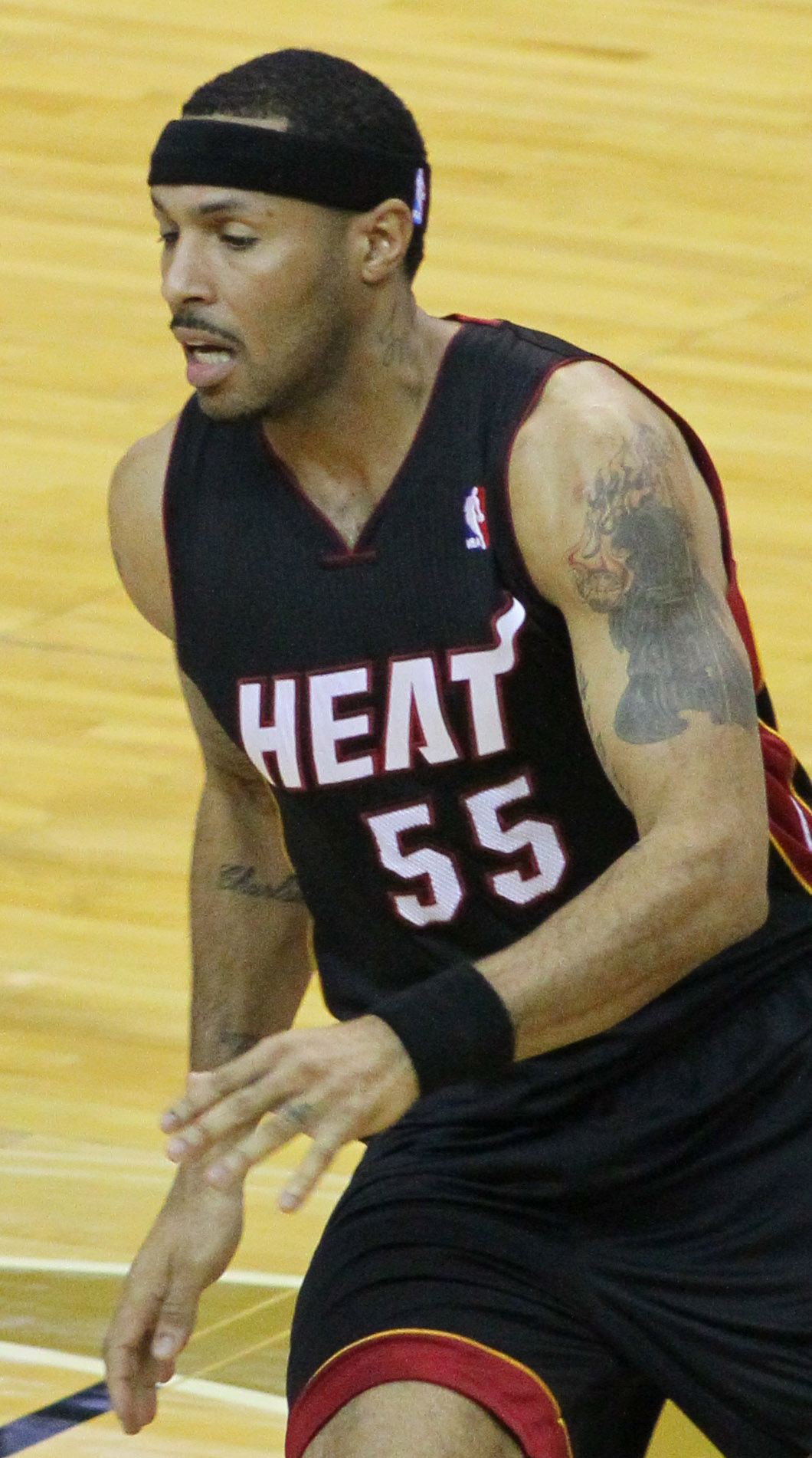 Washington Wizards v/s Miami Heat December 18, 2010